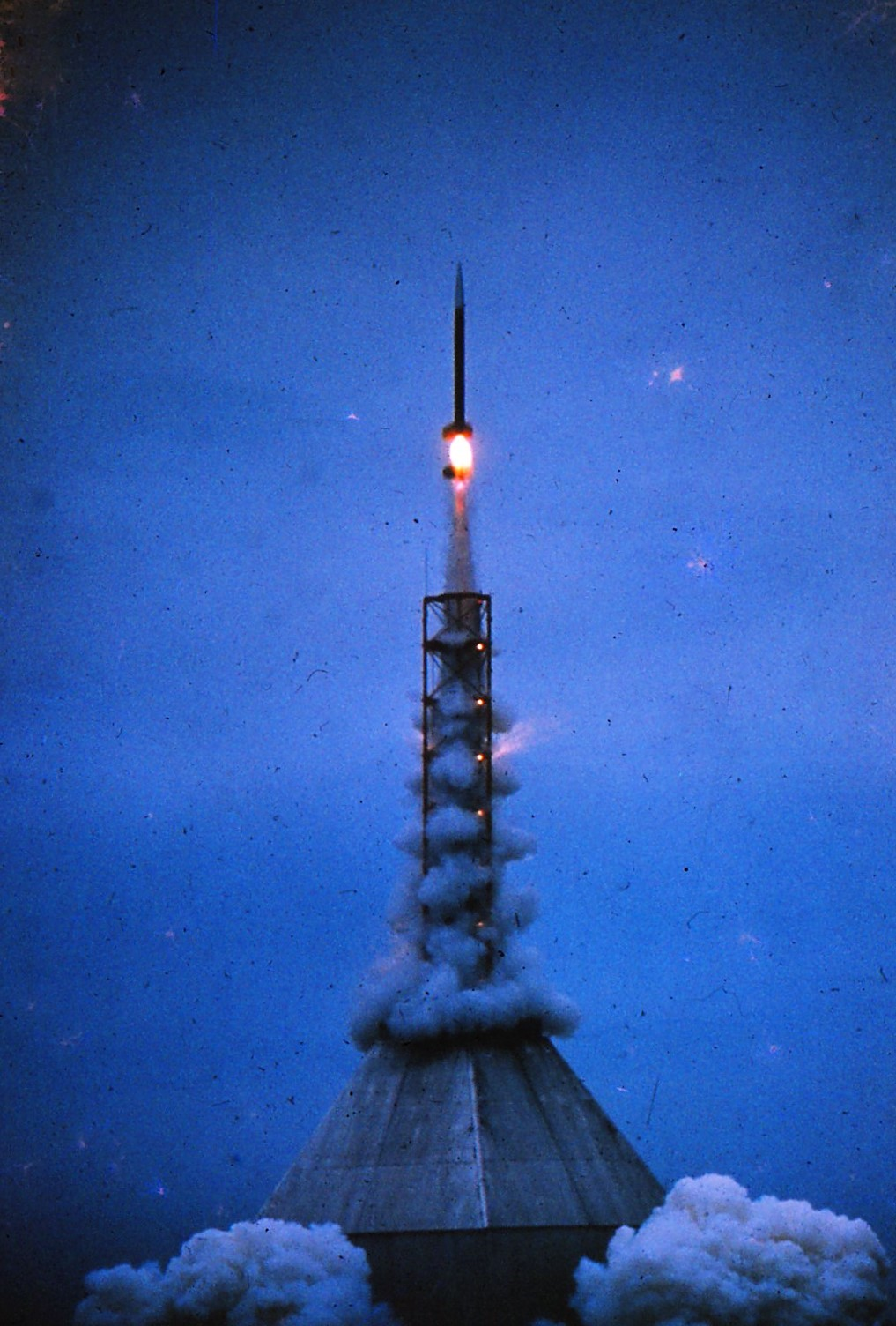 A photograph of the rocket range at Churchill, Manitoba, taken by Clyde L. Nickerson about 1965.